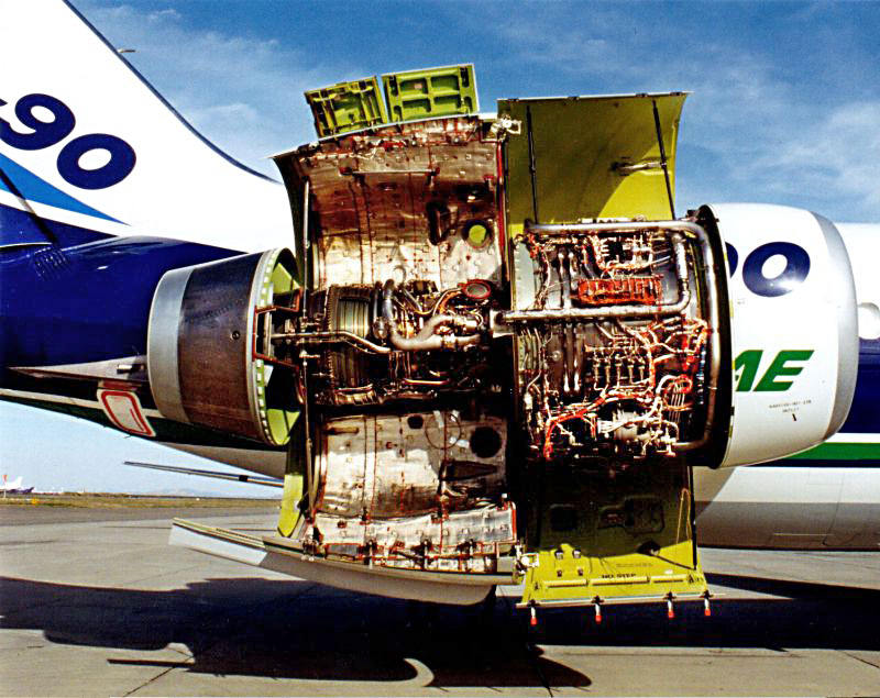 Aero Engines V2500 on the MD-90-30 flight test aircraft at the Mojave Airport